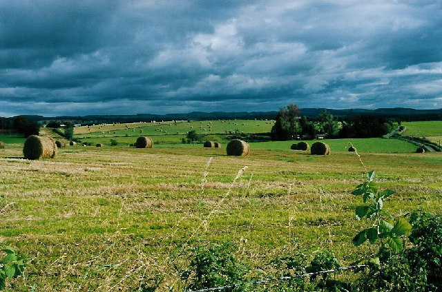 Airntully. A view looking south from Airntully, near Stanley, Perthshire.